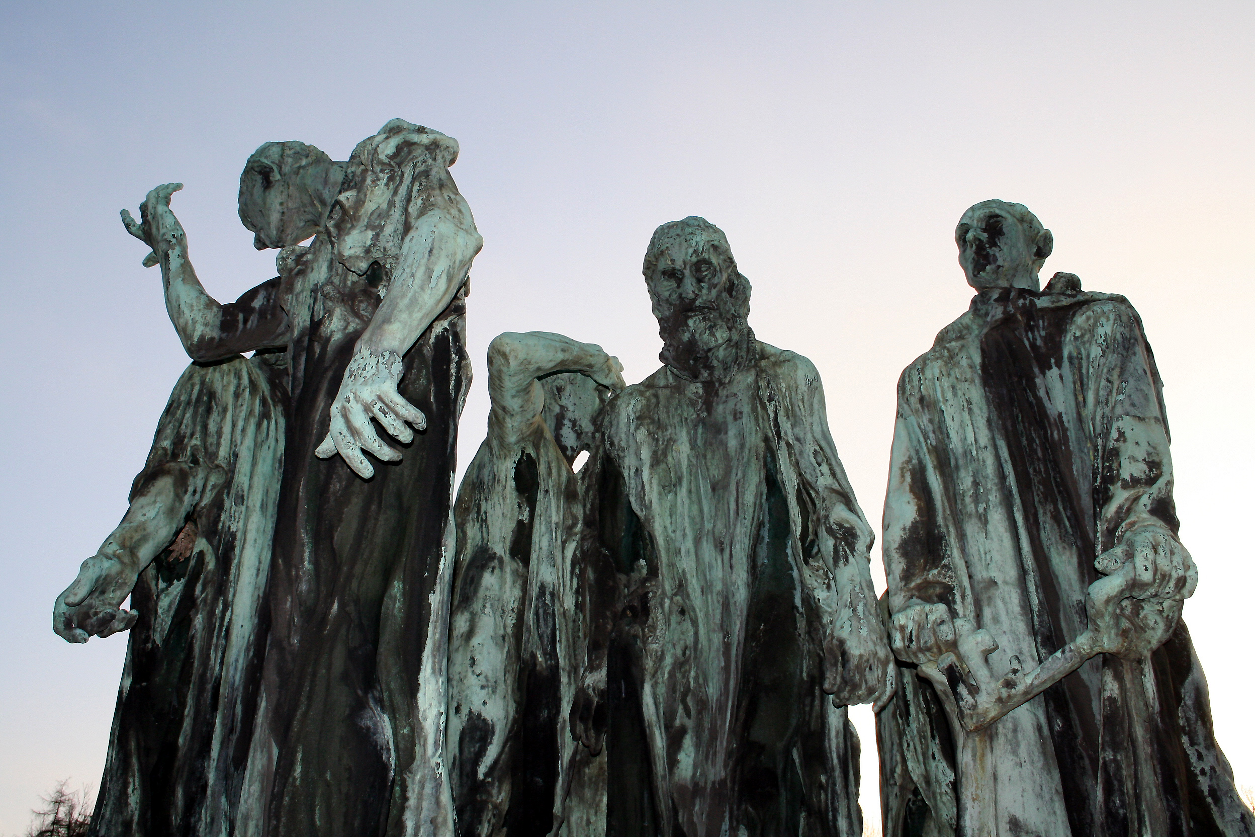 Morlanwelz-Mariemont (Belgium) - Parc de Mariemont - Sculpture Les Bourgeois de Calais by Rodin.